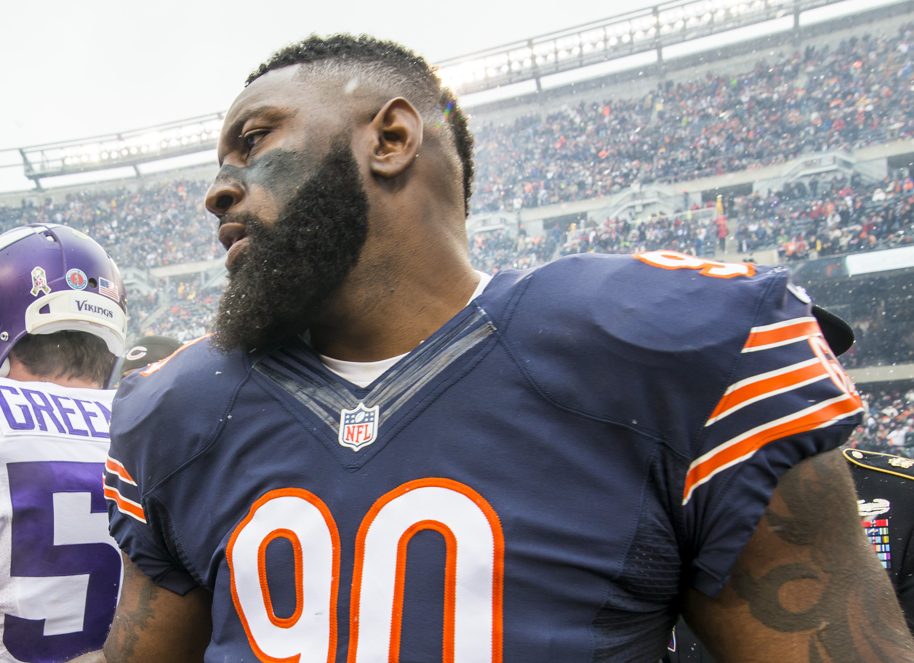 Chicago Bears defensive tackle, Jeremiah Ratliff, in a game against the Minnesota Vikings on November 16, 2014.